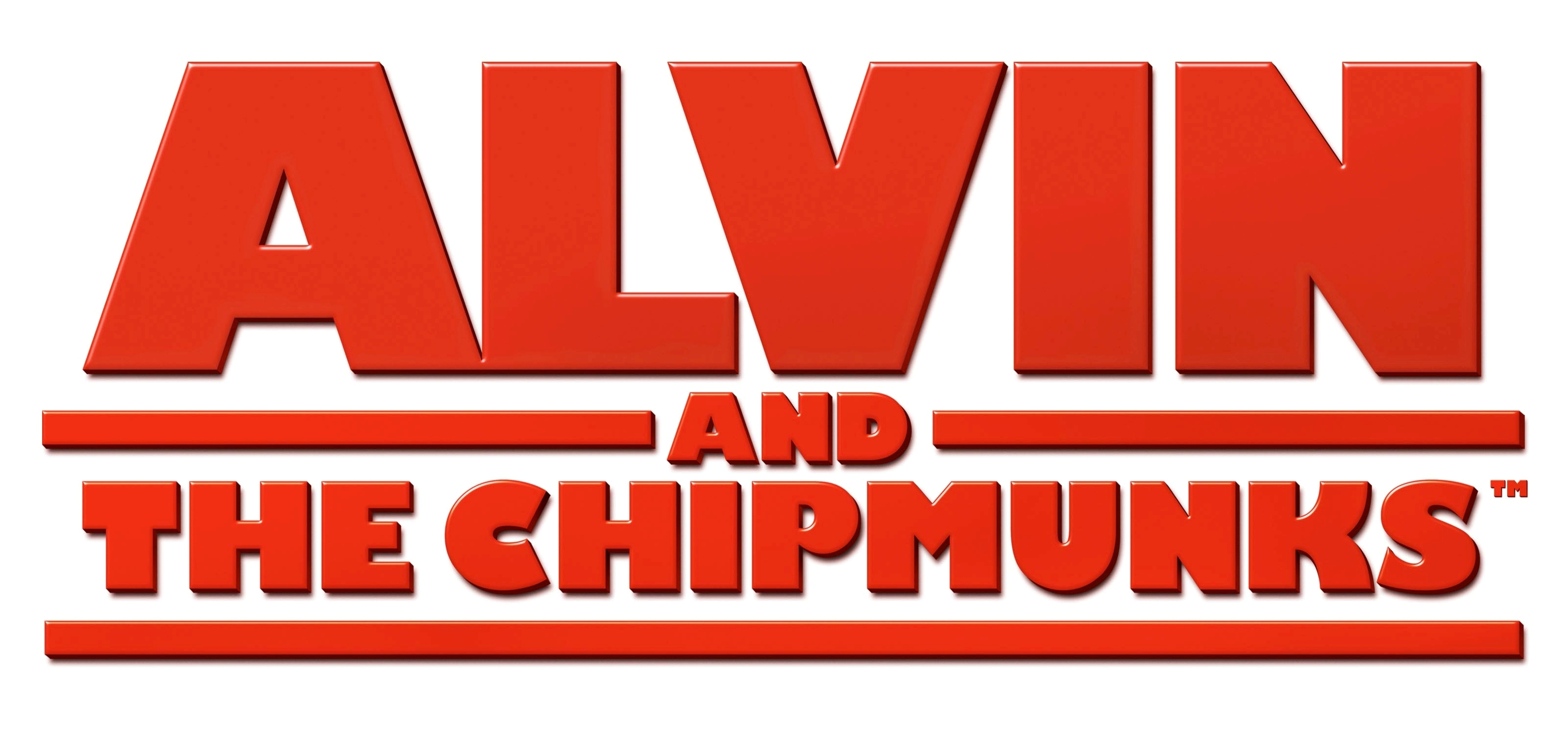 Logo of the 2007 film Alvin and the Chipmunks